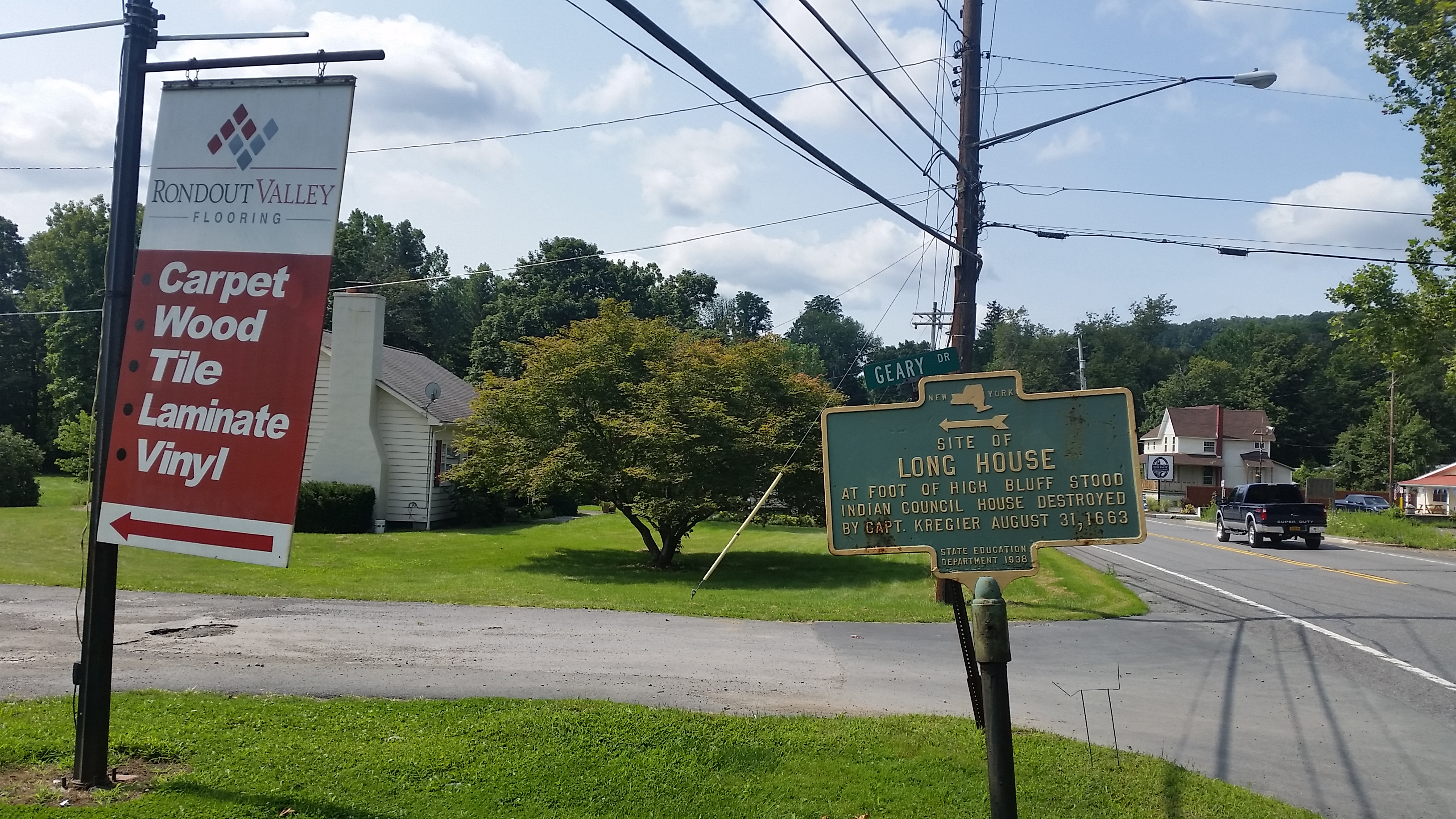 NY State historic marker for a long house destroyed by a Captain Kregier on August 31, 1663.